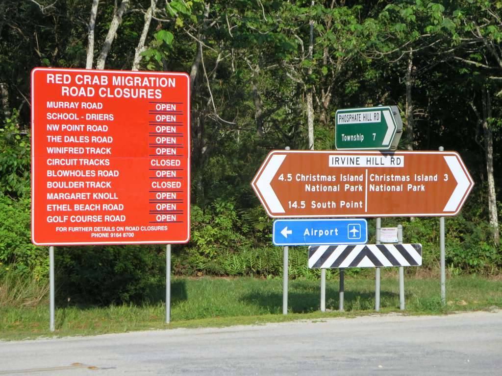 During the red crab migration from late October to December many roads on Christmas Island, Australia, are closed to prevent the millions of crabs from being crushed by vehicles.